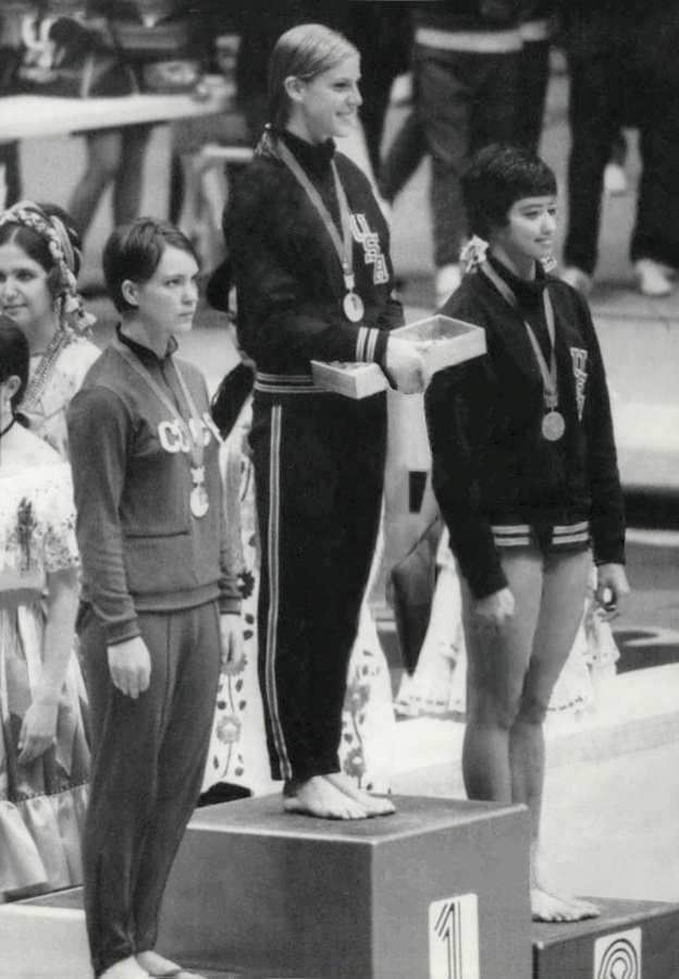 1968 Press Photo Sue Gossick won in women's three-meter springboard diving